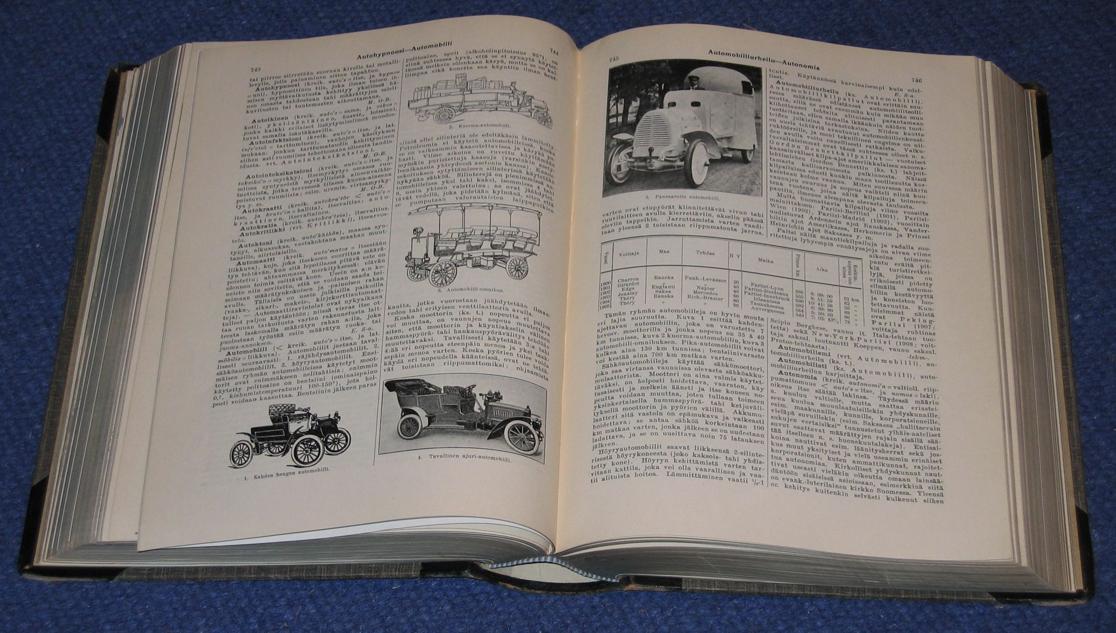 Sample book pages. "Tietosanakirja", vol. 1 (of 11), 1909, Finnish encyclopedia.